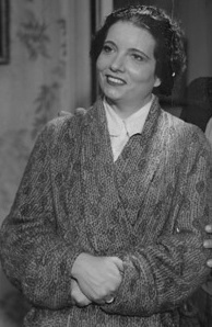 Maria Armand- actriz y vedette